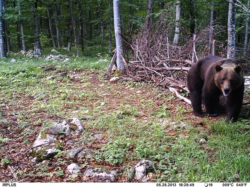 MEDO LJUTOČ